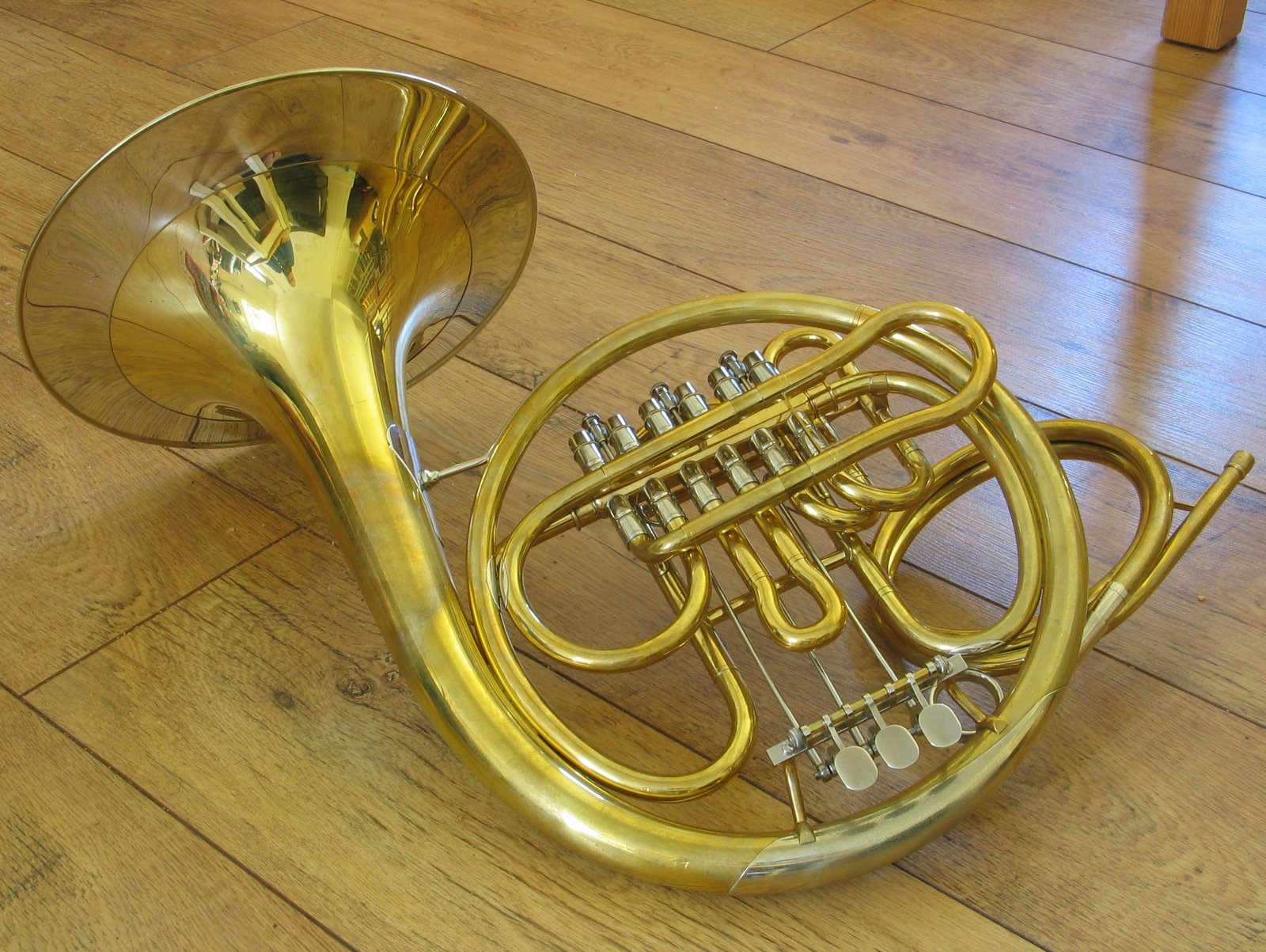 Yamaha Vienna Horn YHR-601 (F single)